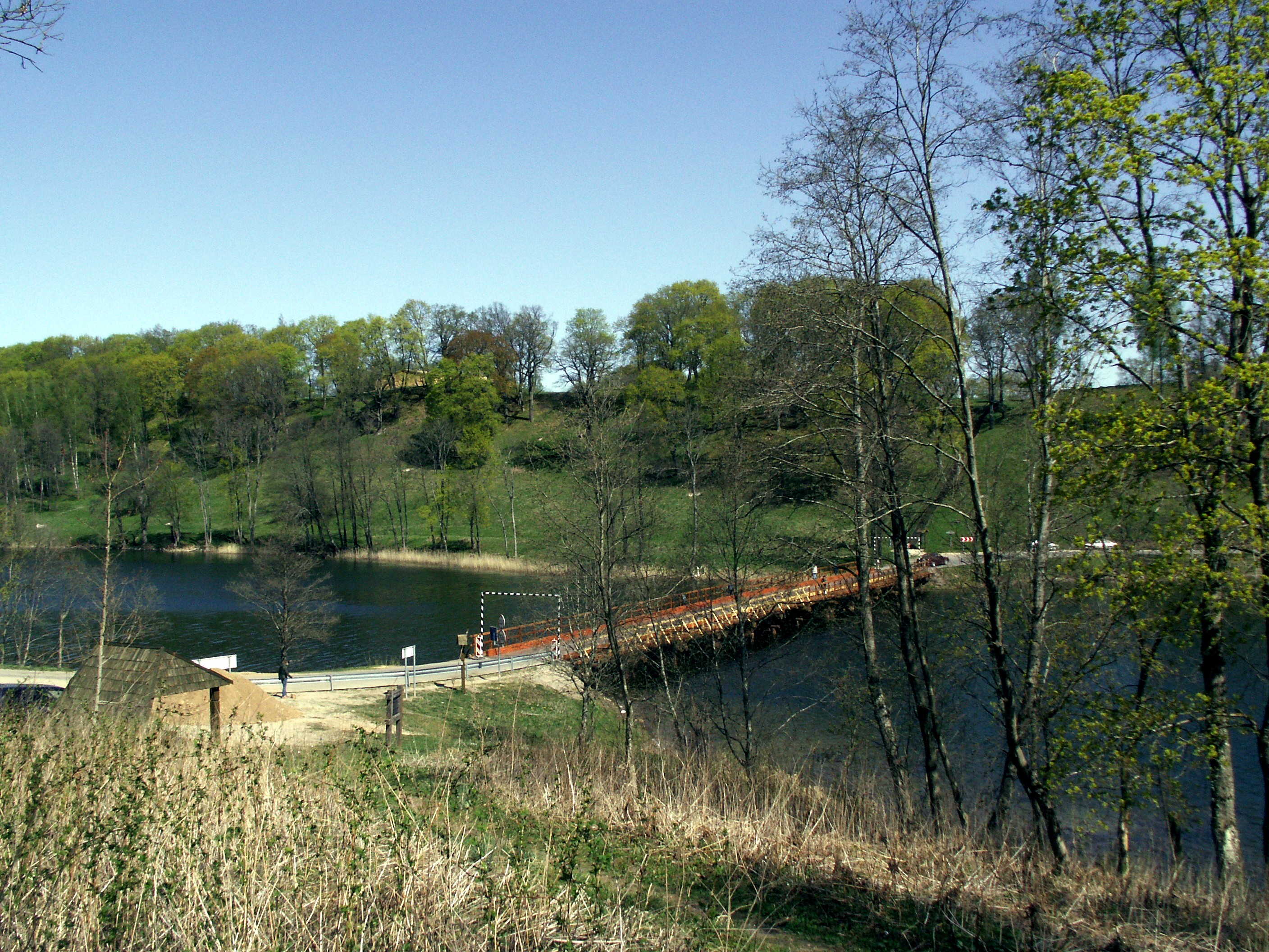 Bridge and ruins of Dubingiai castle, Lithuania